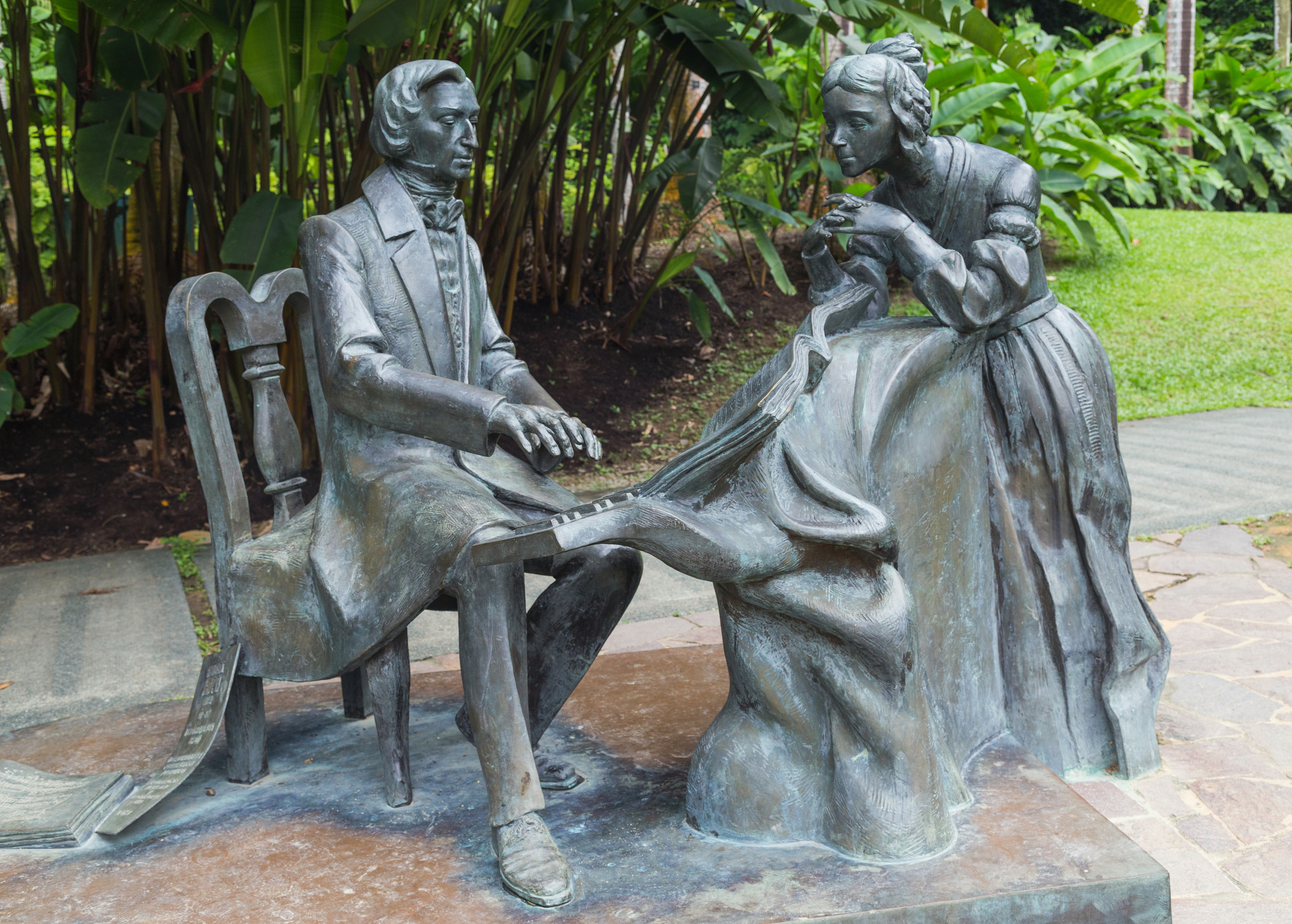 Frederic Chopin statue. Botanic Gardens. Central Region, Singapore.